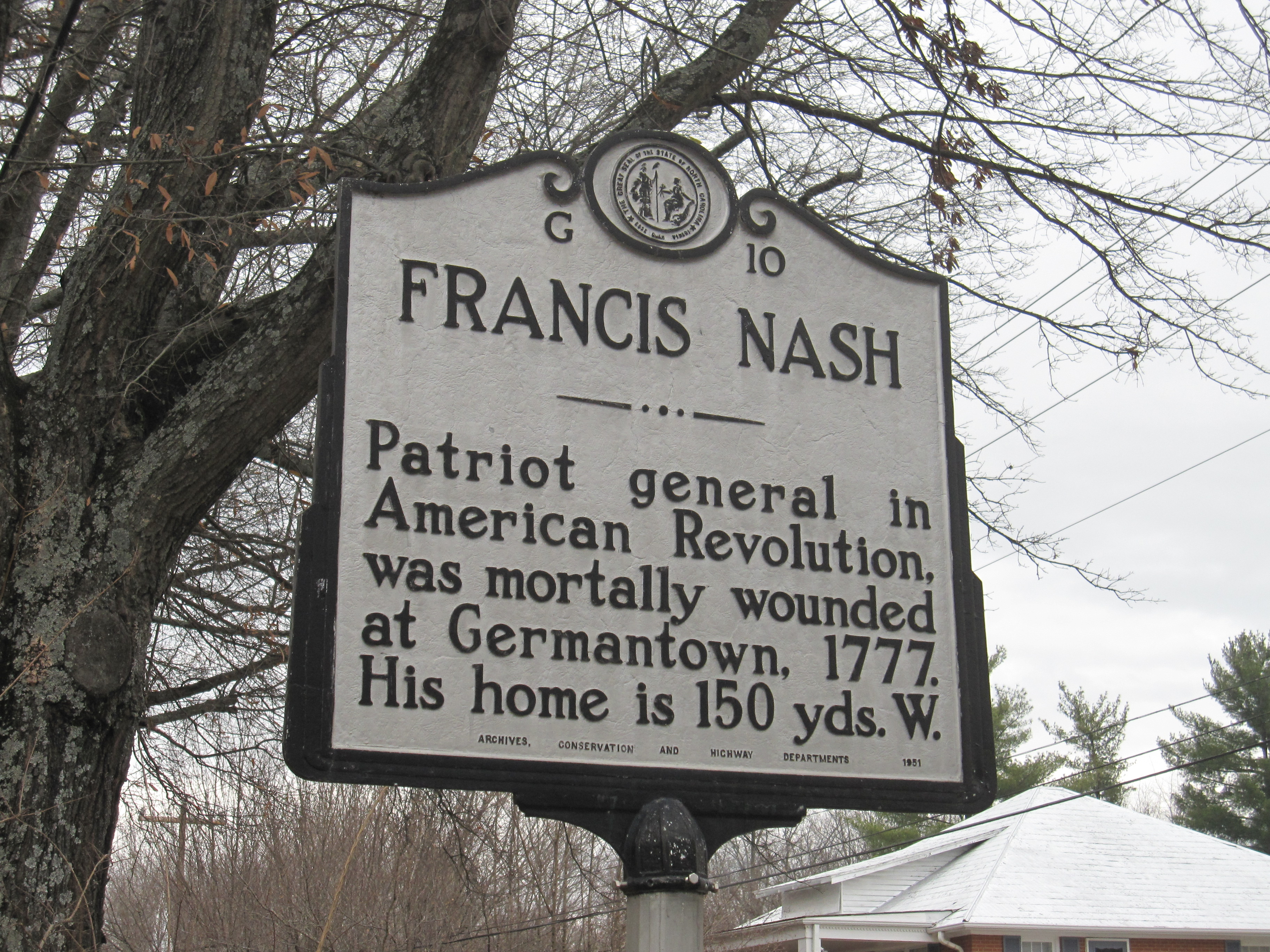 A photograph of the Francis Nash Highway Historical Marker in Hillsborough, North Carolina.